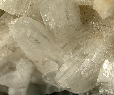 Inderborite Locality: Deposit No. 6, Inder B deposit and salt dome, Atyrau (Gur'yev), Atyrau Oblysy (Atyrau Oblast'), Kazakhstan (Locality at ) Size: cabinet, 11.4 x 6.6 x 6.6 cm Inderborite This is a museum-sized, important specimen of this rare borate, featuring thick, blocky, and really large crystals in the display face pocket. I have had other specimens over the years, all smaller and less significant by an order of magnitude. When I saw this piece, I couldn't believe at first what i was looking at! Compared to just about any other example, this is a museum piece of rare quality. Notably, for reasons I do not understand, this borate seems to be extremely rare at other rich borate deposits, particularly in California where one would have expected to see this with other species from the desert there. In fact, Mindat lists only TWO localities for this species although most borates are found pretty much worldwide. All along the best have come from the original locality in Kazakhstan. According to MINDAT its name is derived as follows: After the type locality, INDER Lake, Kazakhstan, plus in allusion to its composition, being a BORate. Original, huh? (TYPE LOCALITY)